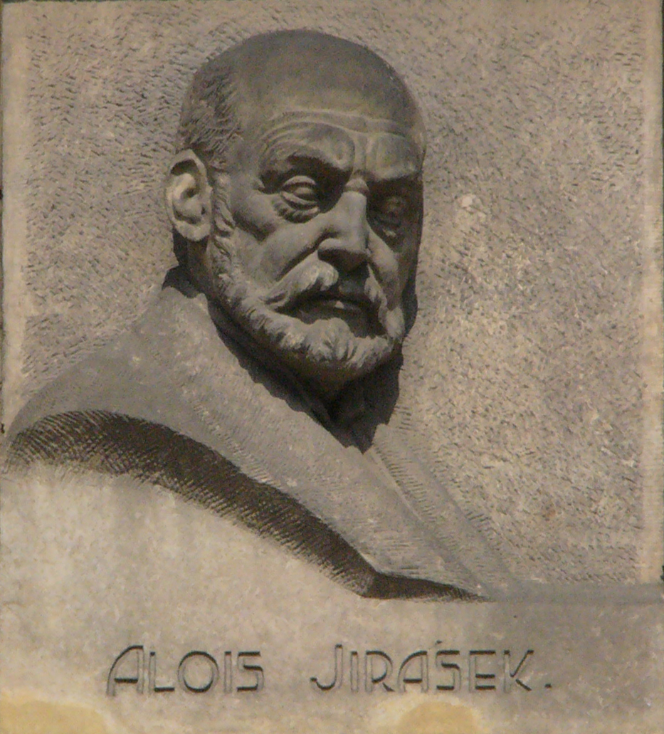 Relief of Alois Jirásek in Olomouc (Czech Republic).